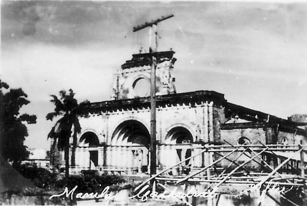 Manila Cathedral after 1945 Japanese bombing attack in W.W. II